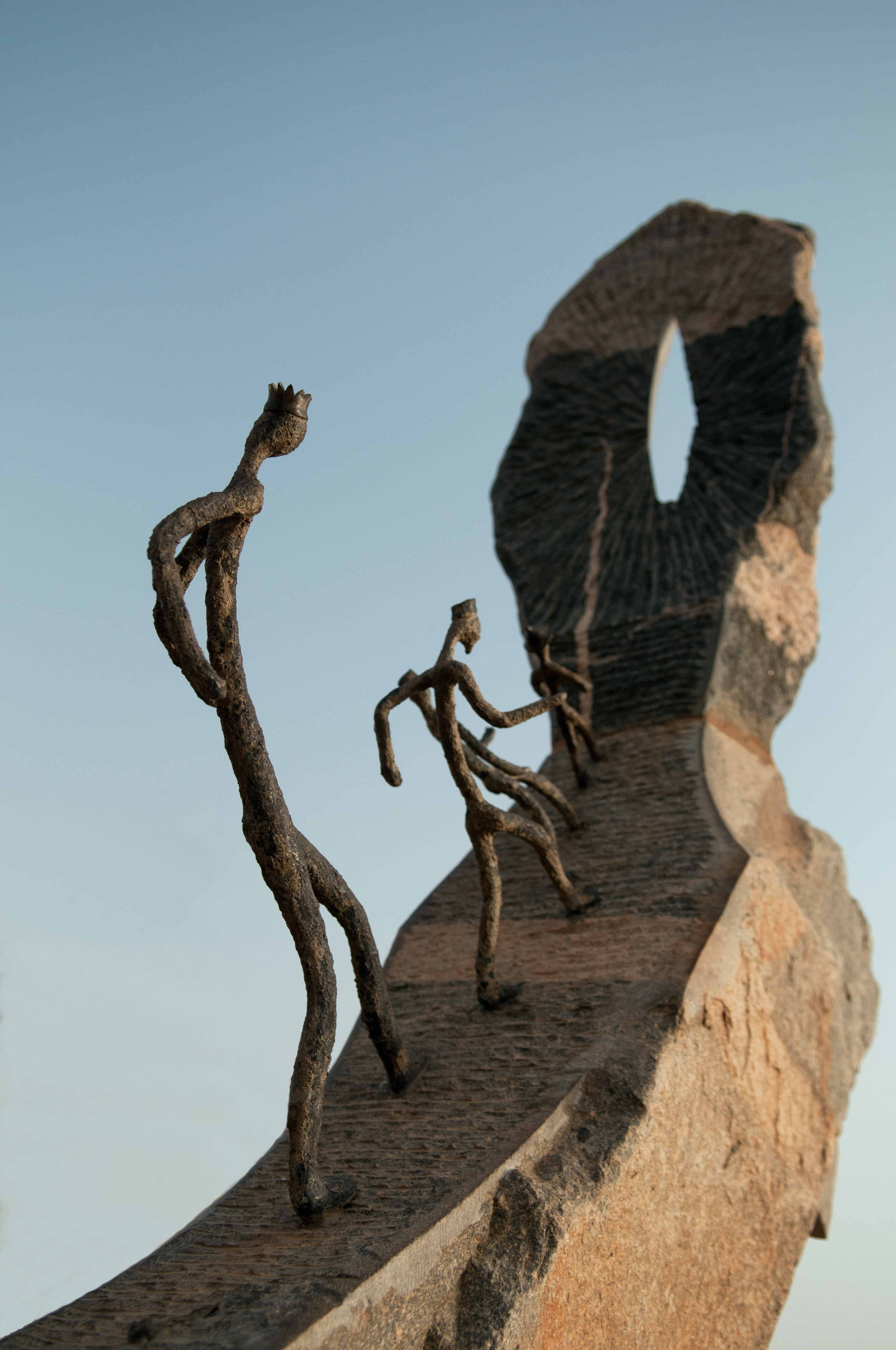 Art Work in the sculpture park in Laongo, Burkina Faso